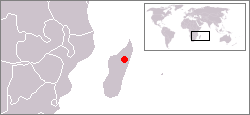 The (former) range of the Madagascar Pochard (in red).